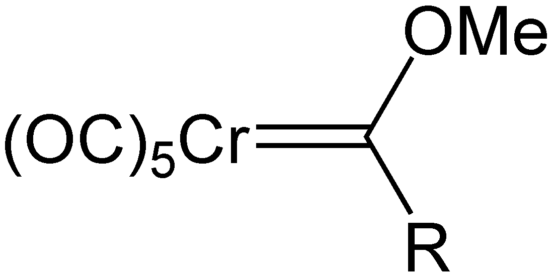 Chromcarben